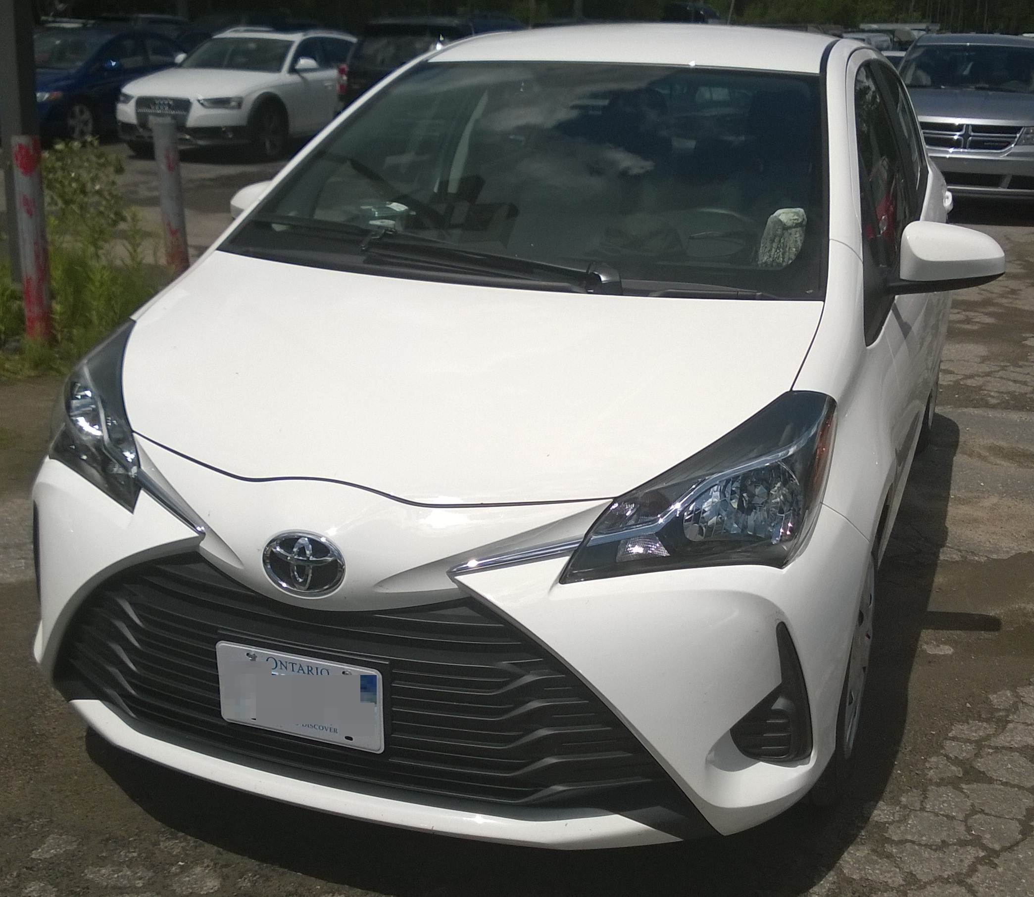 2018 Toyota Yaris photographed in Montebello , Quebec, Canada.